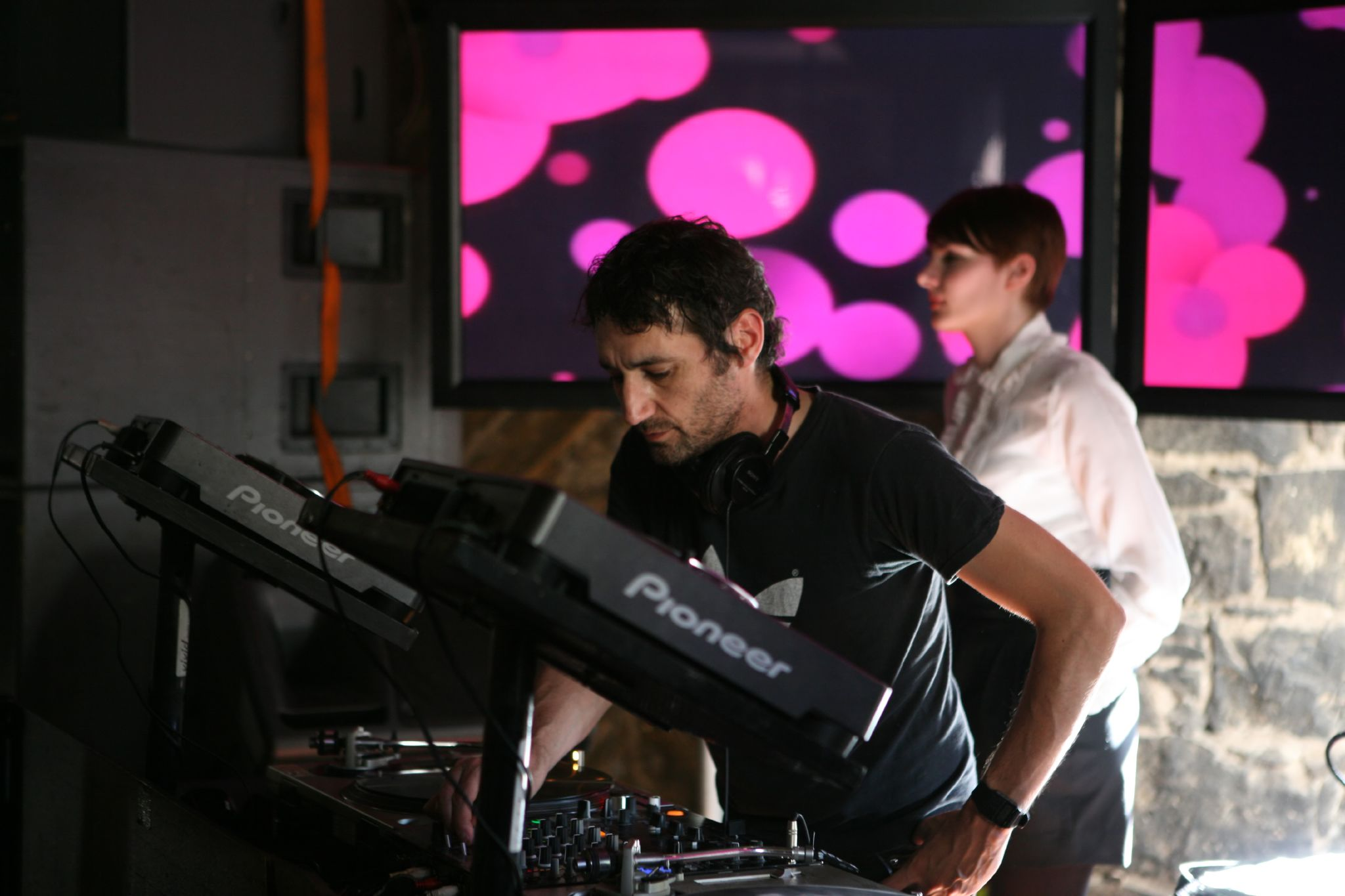 Danny Howells, DJ, november 2008